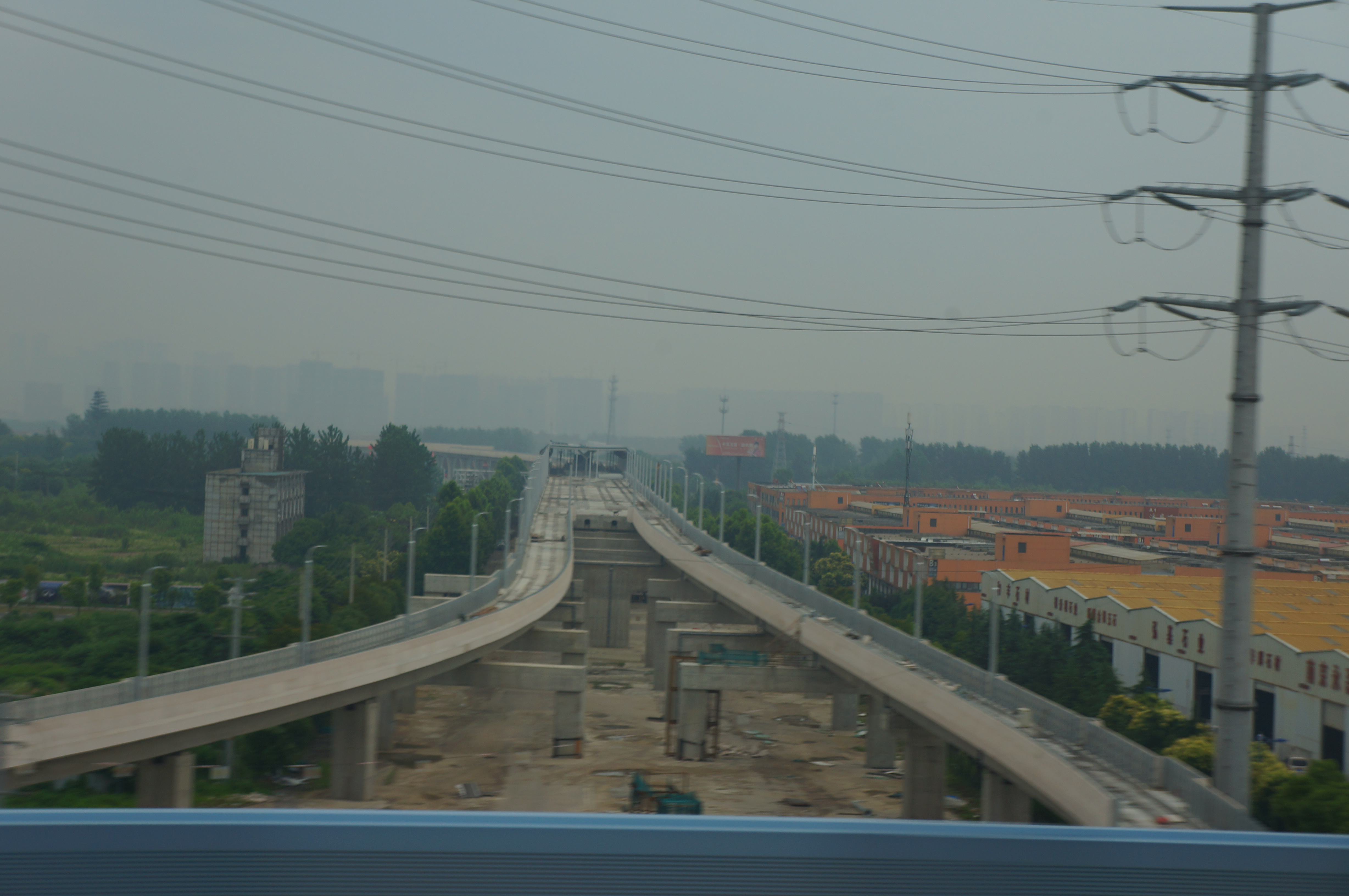 201606 NJS3 in Yuhua under construction